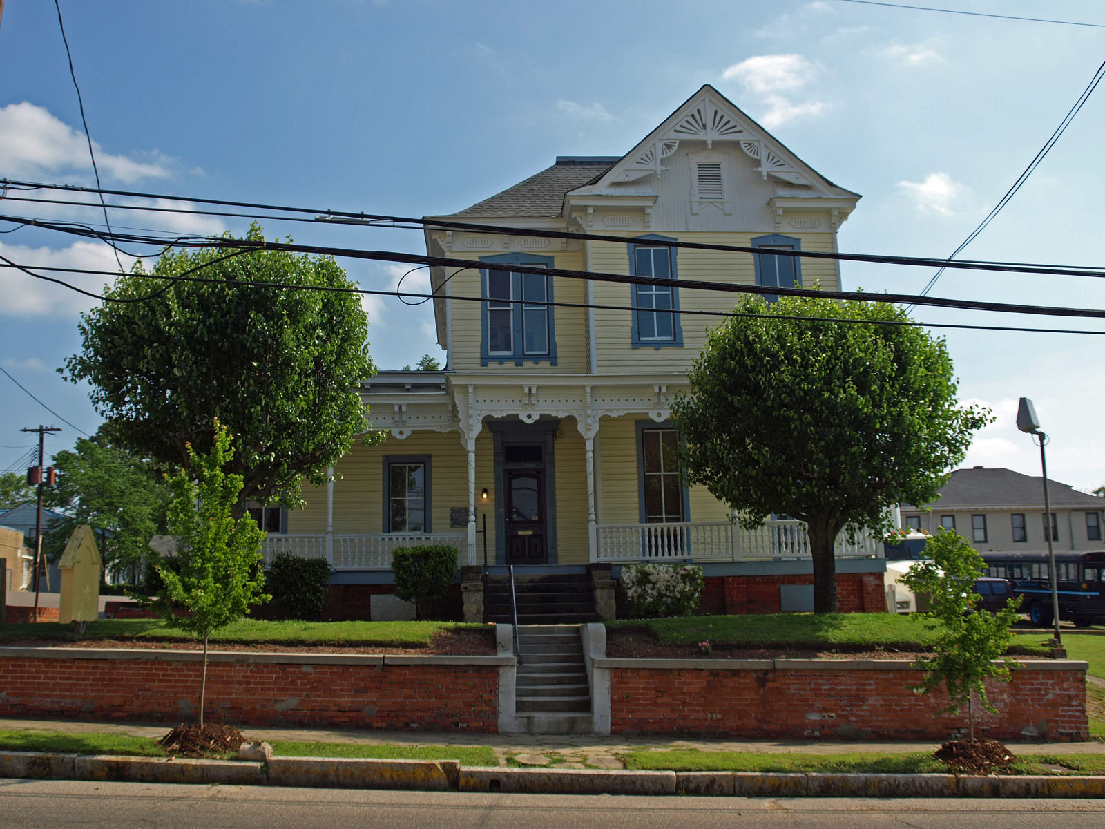 Front (north) side of the Pepperman House in Montgomery, Alabama